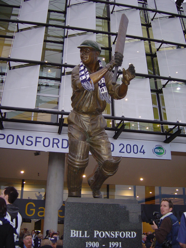 The Bill Ponsford statue is draped in a Geelong scarf following Geelong's first AFL premiership in 44 years.